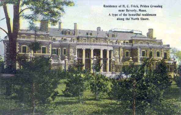 Eagle Rock, Prides Crossing (Beverly), MA; from a 1913 postcard. Built in 1904 for Henry Clay Frick, the 104 room summer home was designed by Boston architects Arthur Little and Herbert W. C. Browne. It was razed in 1969.